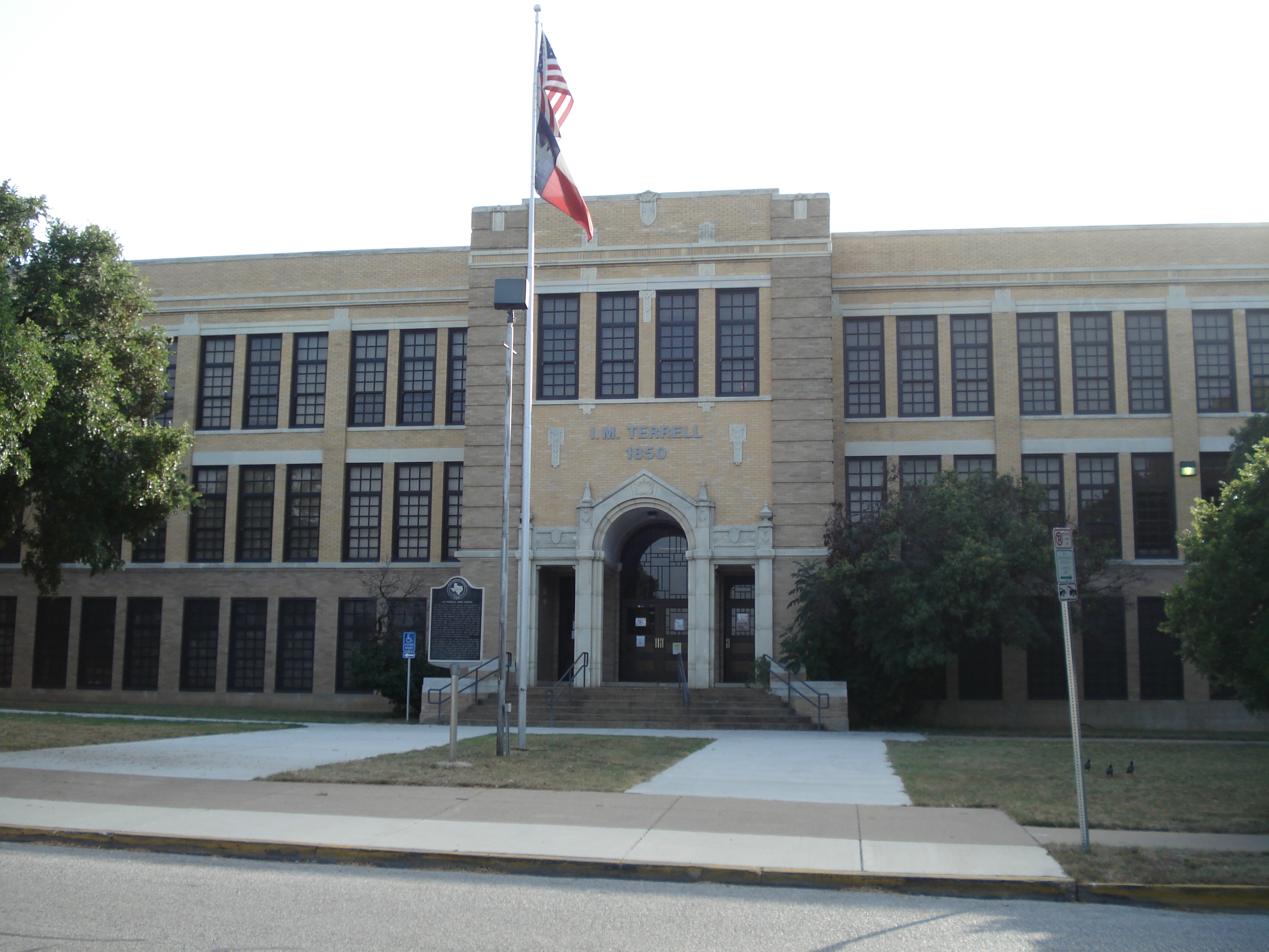 Site of former I.M. Terrell High School in Fort Worth, Texas. In 1998, this building re-opened as I.M. Terrell Elementary School.